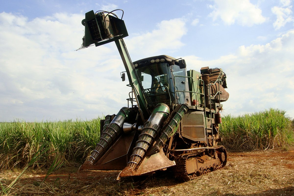 John Deere sugarcane harvester – Equipment for mechanized sugarcane harvesting, Piracicaba, Sao Paulo, Brazil (for ethanol fuel production)